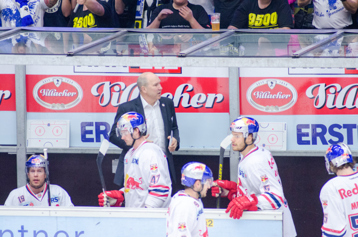 25.10.2013, Stadthalle Villach, AUT, EBEL, 27. Runde, EC VSV vs. EC RED BULL Salzburg, im Bild // frostworx Pictures © 2013, PhotoCredit: frostworx / Alex Micheu